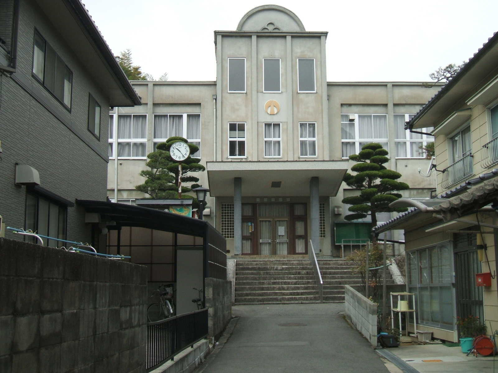 Former Joge town office, Fuchu, Hiroshima.